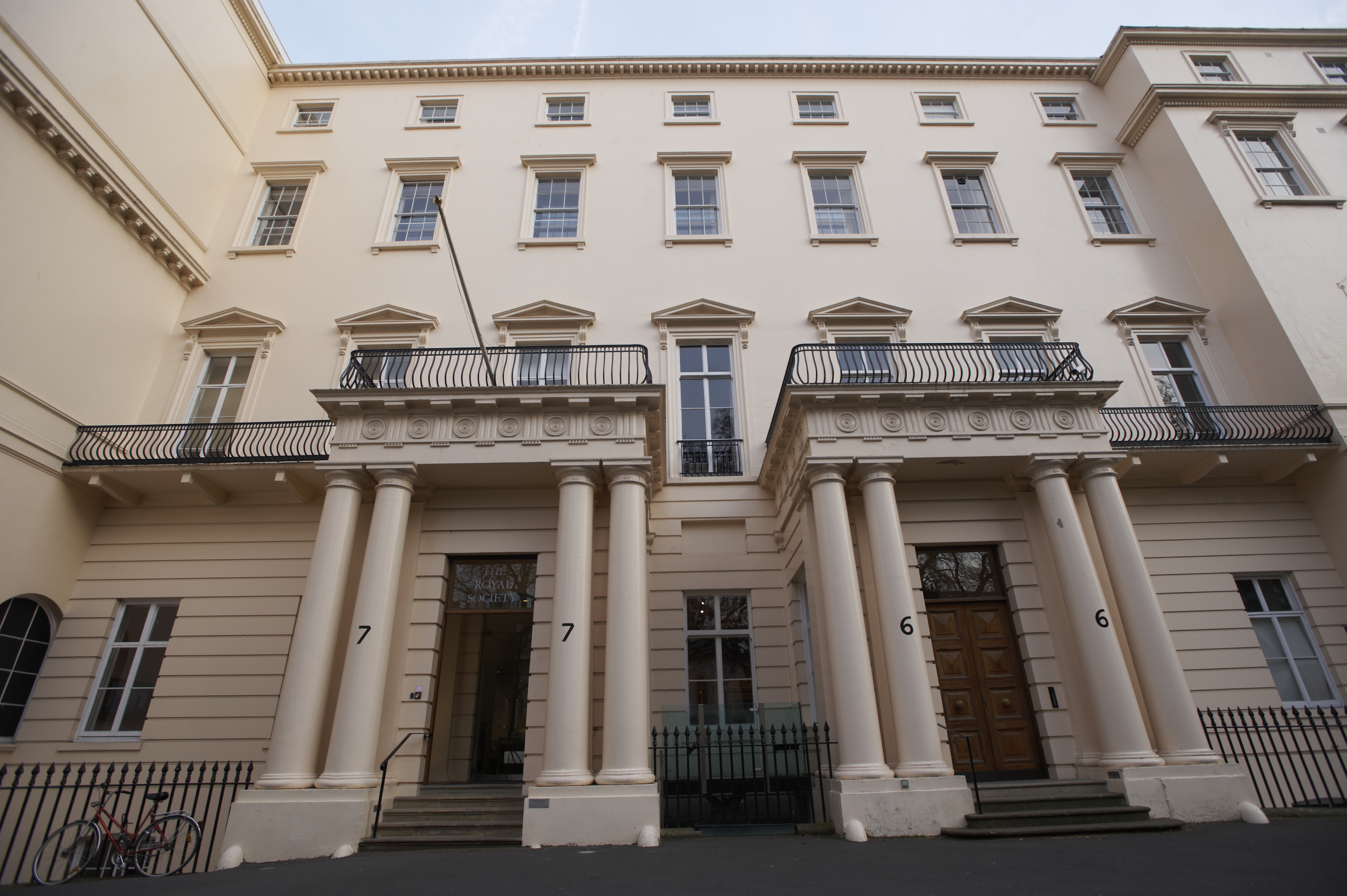 Entrance to The Royal Society, 7-9 Carlton House Terrace, London Attribution: The Royal Society